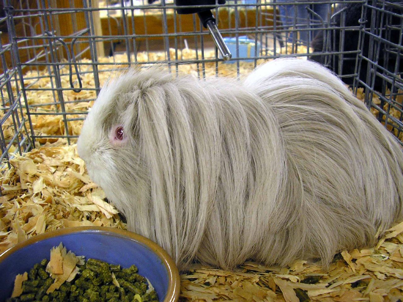 This guinea pig has gorgeous long hair and was a prize winner at the Puyallup, WA fair. I shot this through the cage in between the holes. It does limit what you can do though. It cannot be peruvian or at least not a prize winning peruvian since the breed requires "front hair" falling over the face which this cavy has not. It is most likely a sheltie/silkie. Pitke (talk) 07:57, 19 March 2009 (UTC)